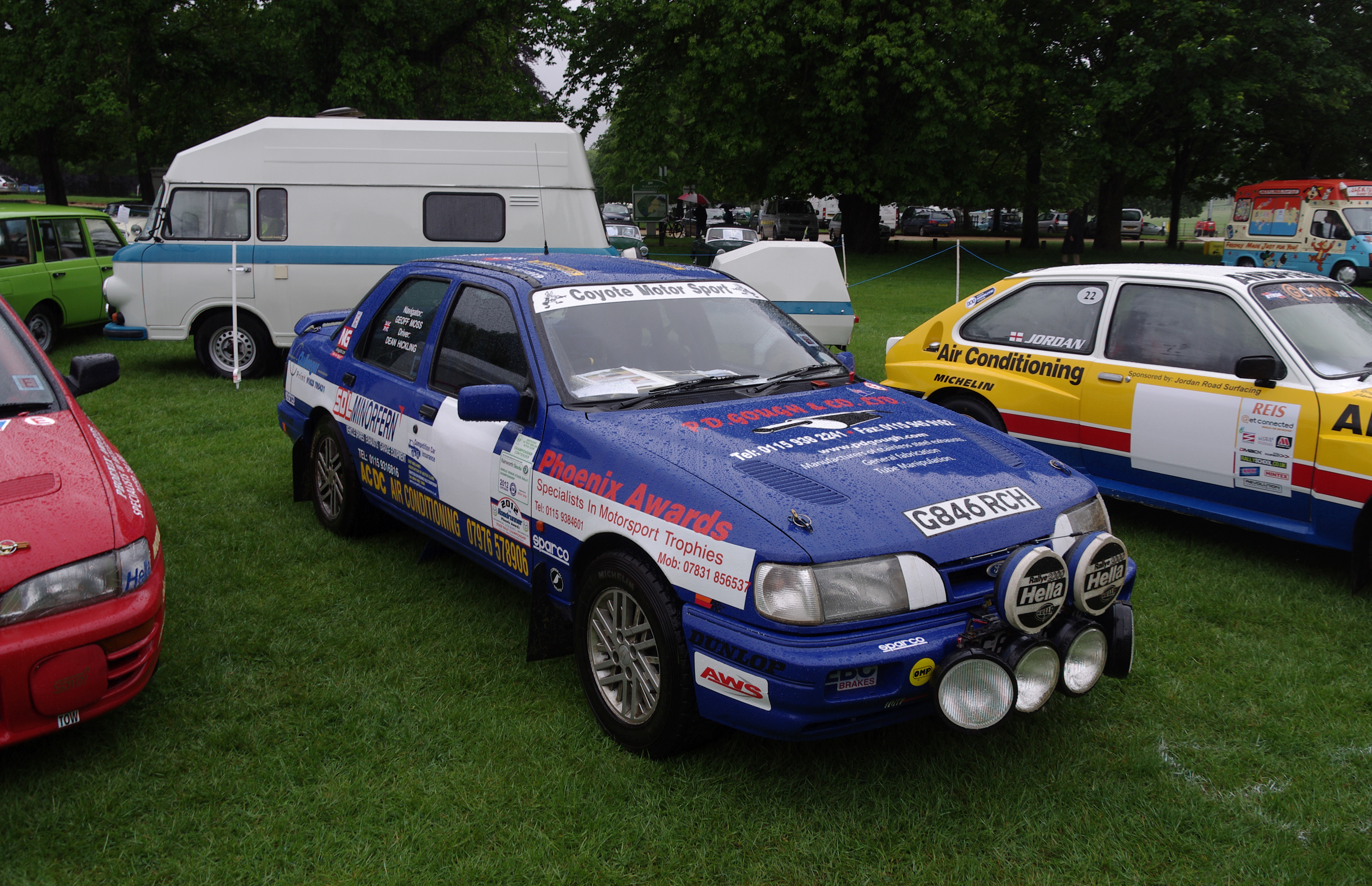 Ford Escort rally car at the Nottingham Autokarna.